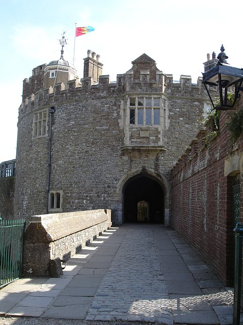 Entrance to Walmer Castle. Official residence of the Lord Warden of the Cinque Ports (currently Admiral Lord Boyce). This is the main entrance into the North Bastion and would originally have been protected by a short drawbridge, now replaced with a brick bridge. The castle was built in the 16th century for Henry VIII, and forms part of a line of defence along the edge of the Downs. It has a low profile similar in design to nearby Deal castle. Gunpowder was becoming more widely used and high walls would only have provided a greater target area for attack. With low outer walls, reinforced with solid bastions, and the added protection of earth ramparts and moats, there was less of a target for enemy fire but plenty of strength to withstand a battering.